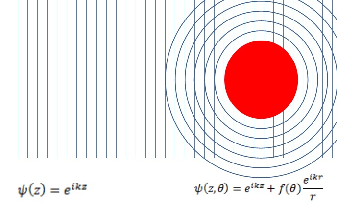 Description of a particle plane wave solution of scattering